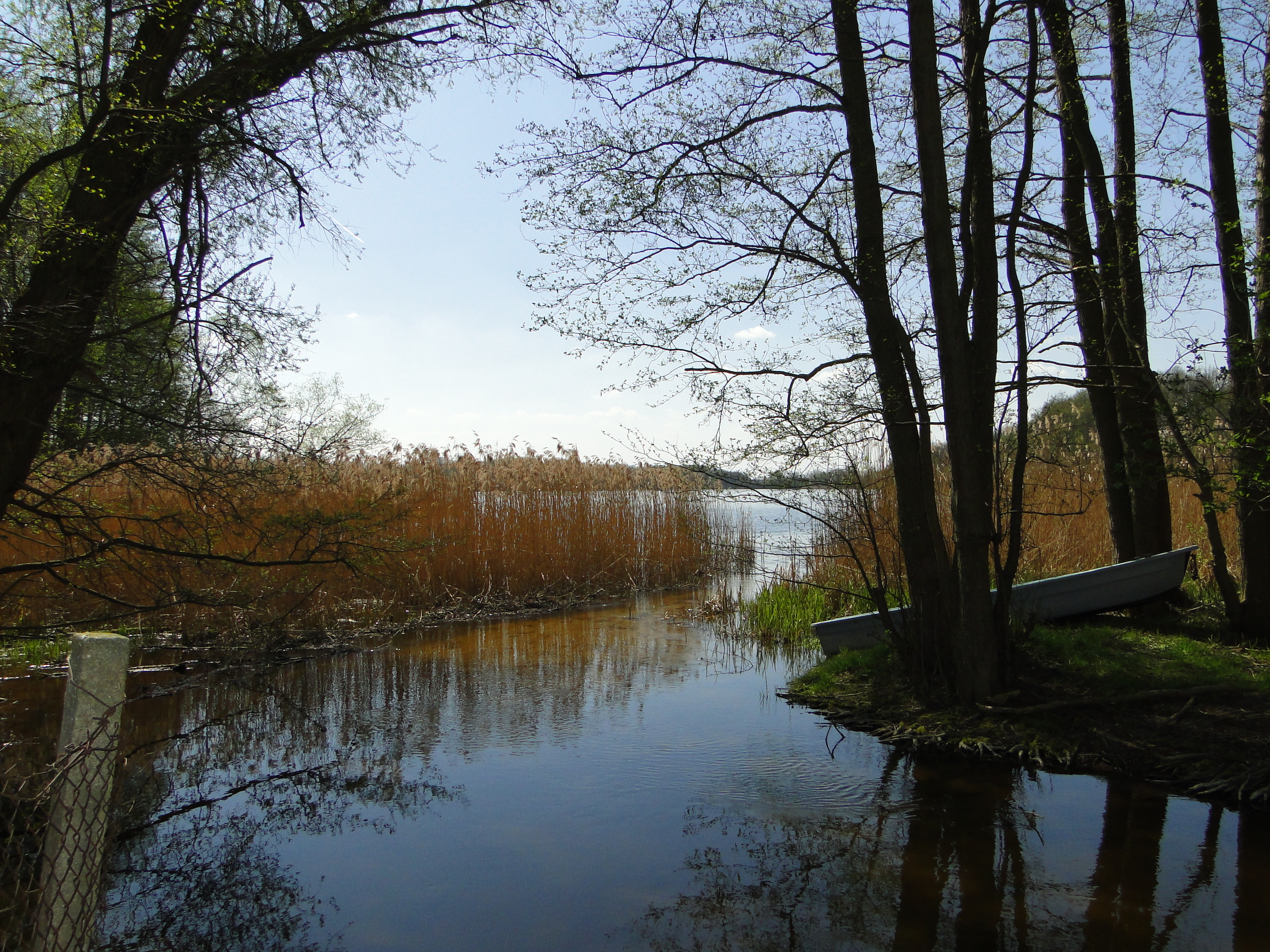 Bresenitz at Woseriner See in Garder Mühle, district Güstrow, Mecklenburg-Vorpommern, Germany